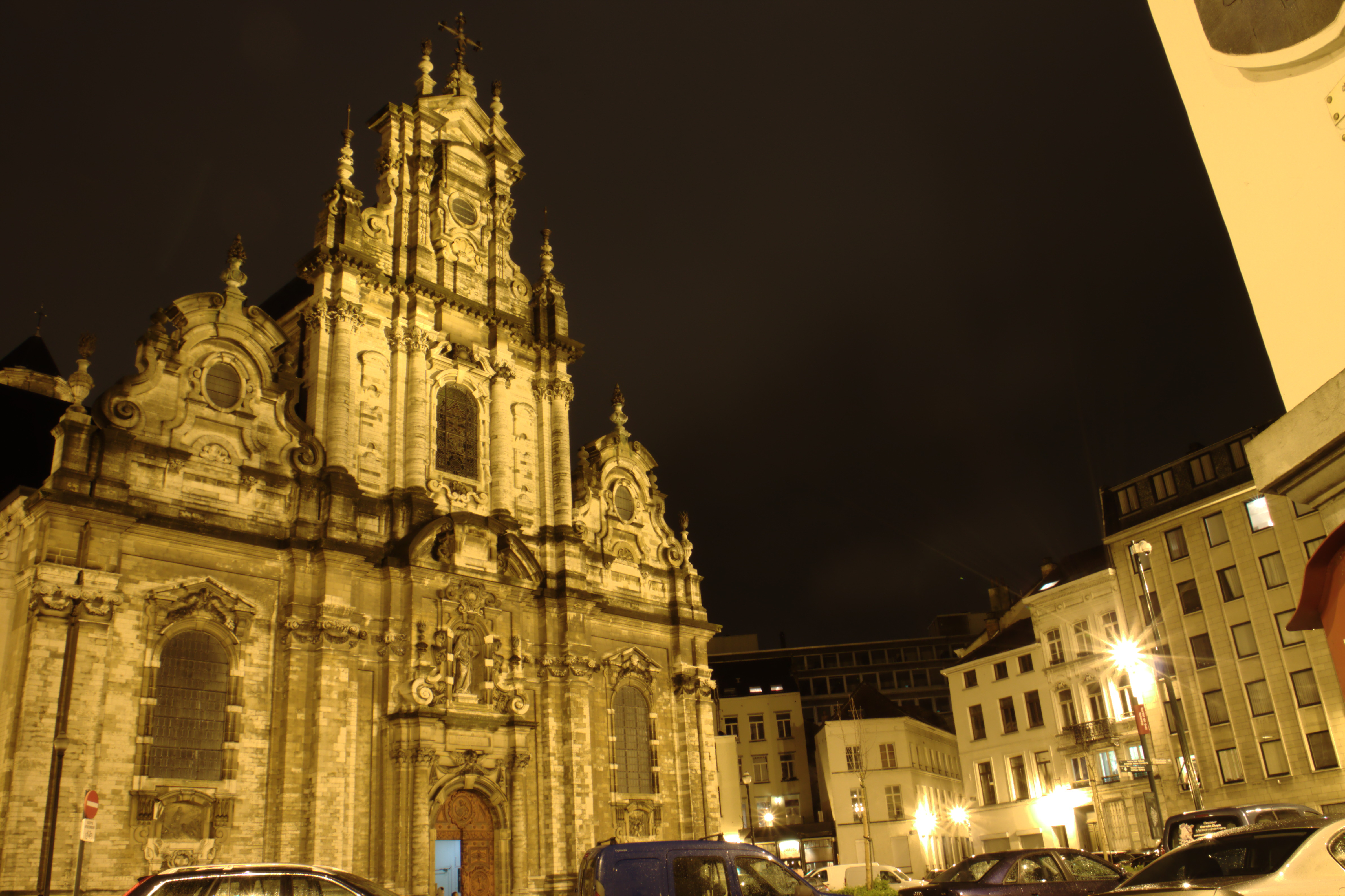 Night view of the St. John the Baptist Church at Béguinage Square in Brussels